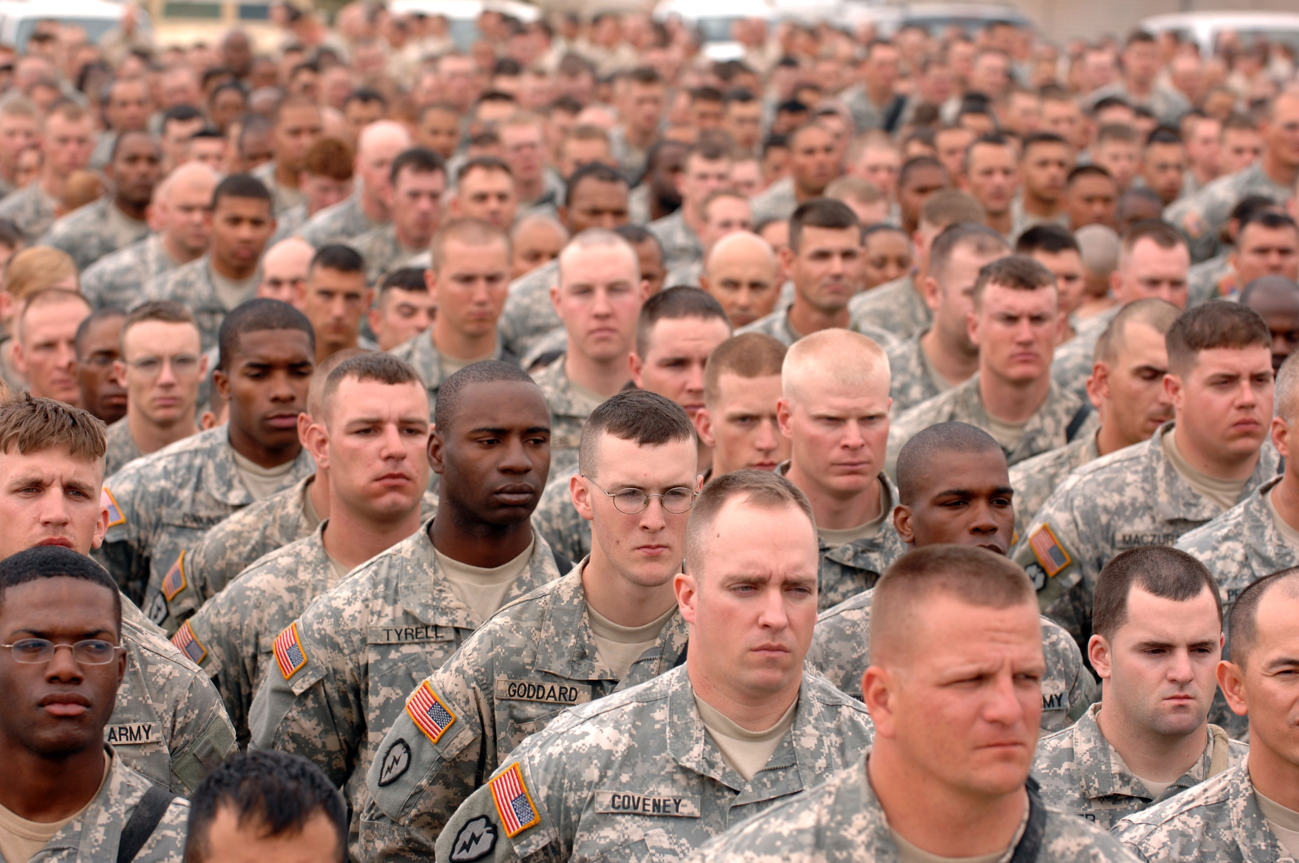 U.S. Army Soldiers from the 3rd Infantry Brigade Combat Team, 25th Infantry Division form up for a ceremony to honor fallen service members at Kirkuk Regional Air Base/ Forward Operating Base Warrior, Iraq, April 7, 2007. (U.S. Air Force photo by Senior Airman Bradley A. Lail)